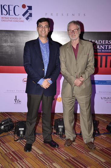 Co-Founder of the European Mentoring and Coaching Council ("EMCC"), Sir John Whitmore with an active member of the EMCC and Author, Nigel Cumberland. Together in India in June 2013